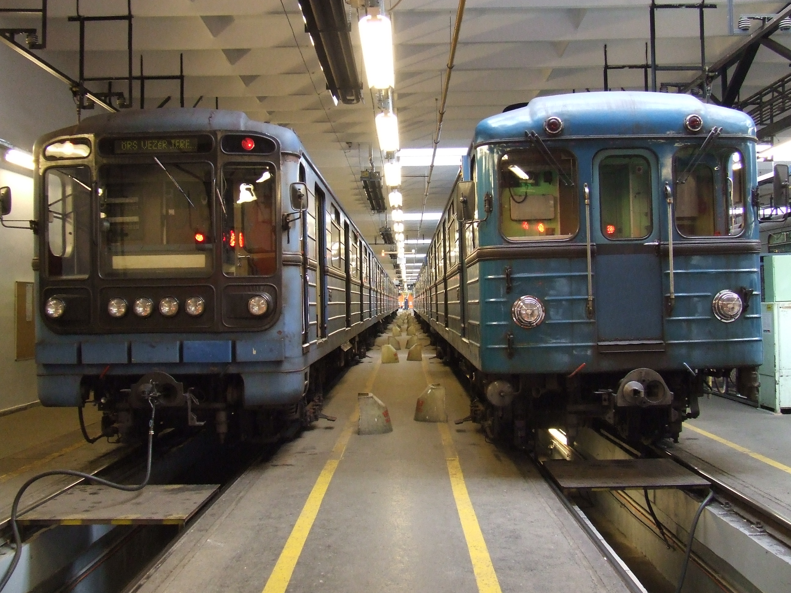 Budapest metro depot, 81-717m and Ev trains. - Kerepesi út, Fehér út, Budapest District X BKV Vasúti Járműjavító (VJSZ Fehér úti főműhely). Budapest X., Fehér út 1/B(?). Fehér úti járműtelep része a Kelet-Nyugati metróvonal (2-es) kocsiszín és emeléses csarnok.